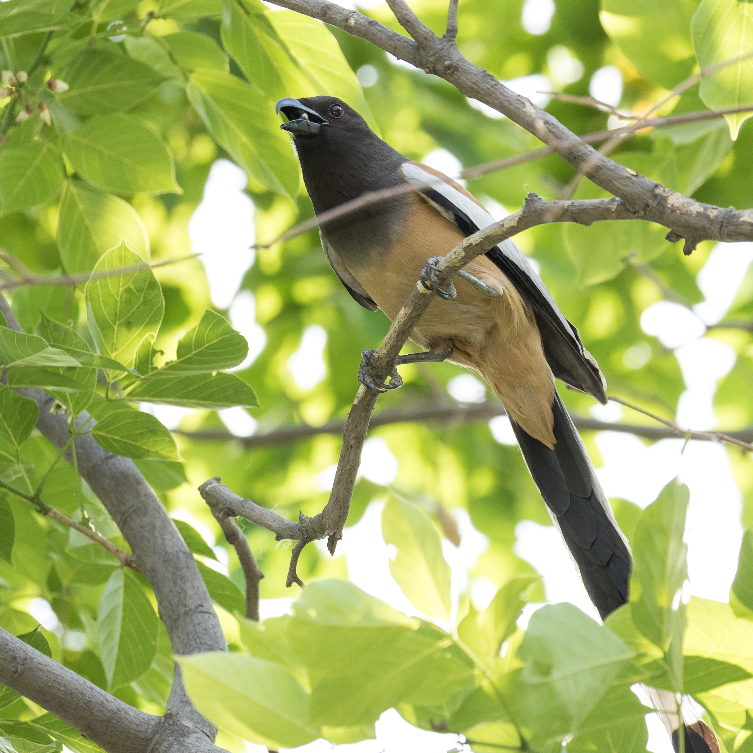 Rufous Treepie at Gurgaon.